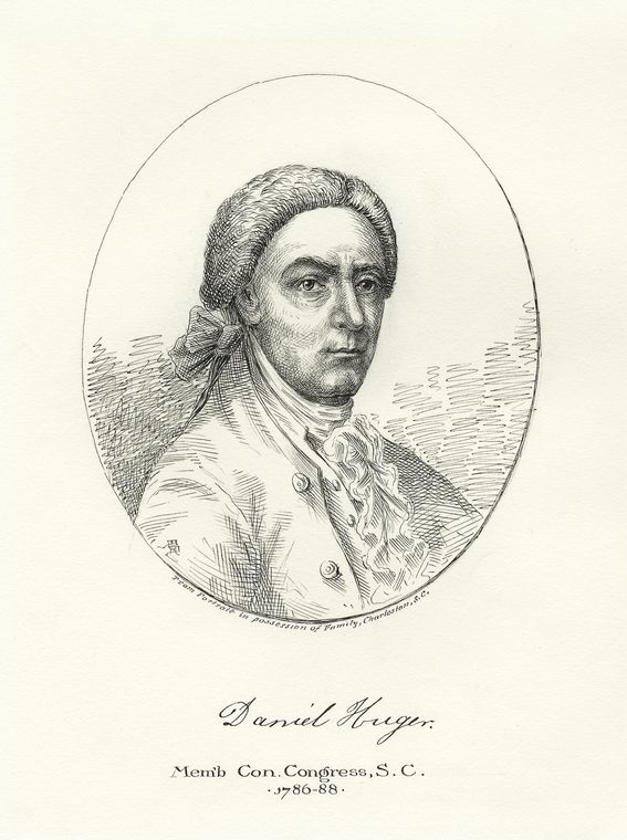 Daniel Huger (February 20, 1742 – July 6, 1799) was an American planter and statesman from Berkeley County, South Carolina.